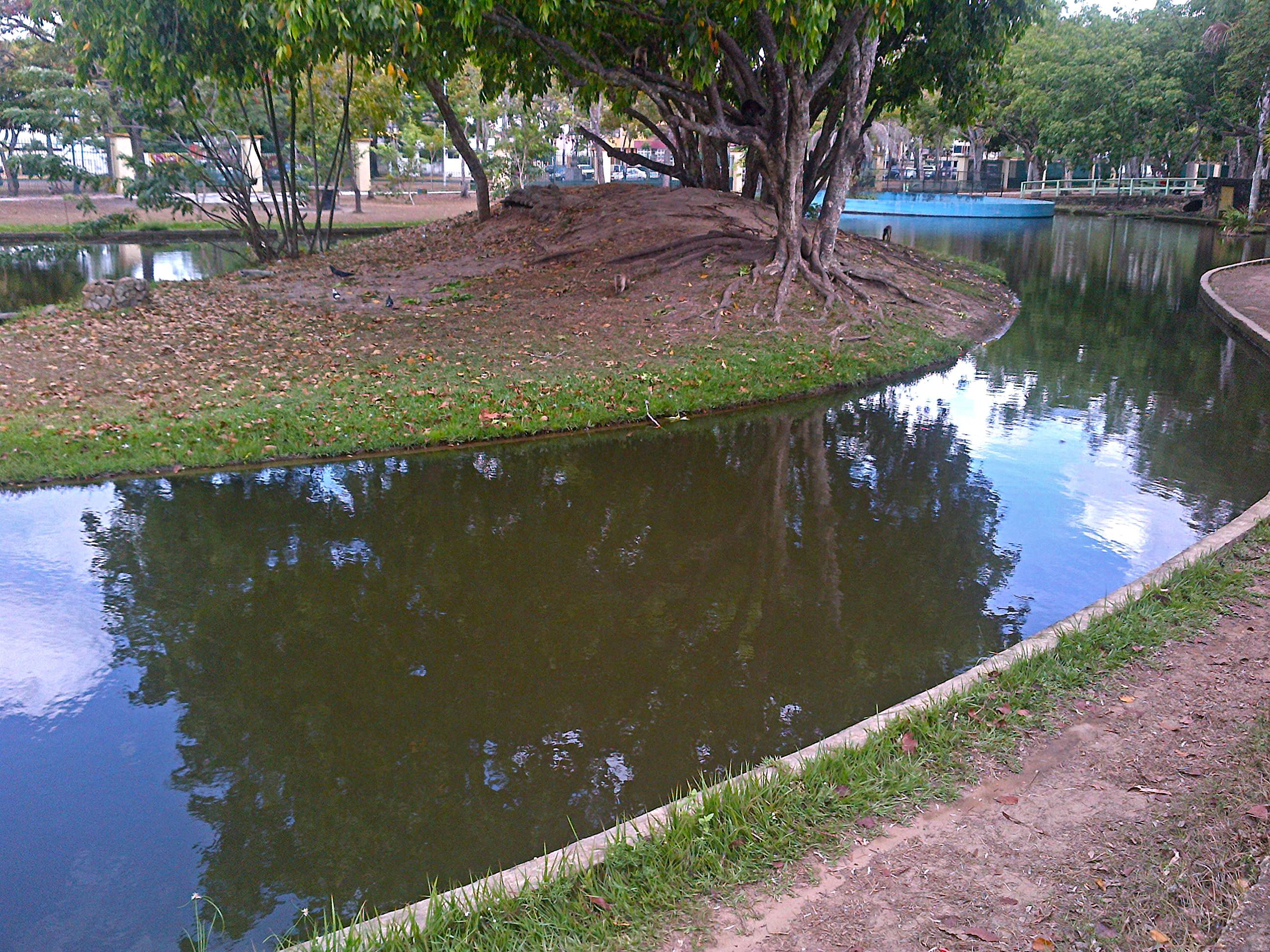 La Guaricha Park from Maturín, Monagas State.